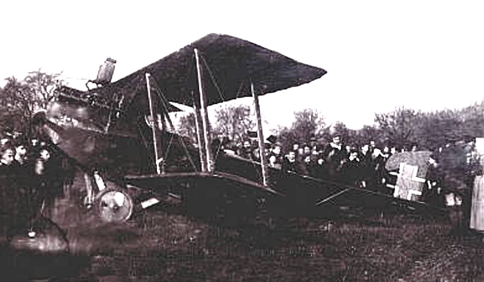 Aircraft in Scheibbs, Austria